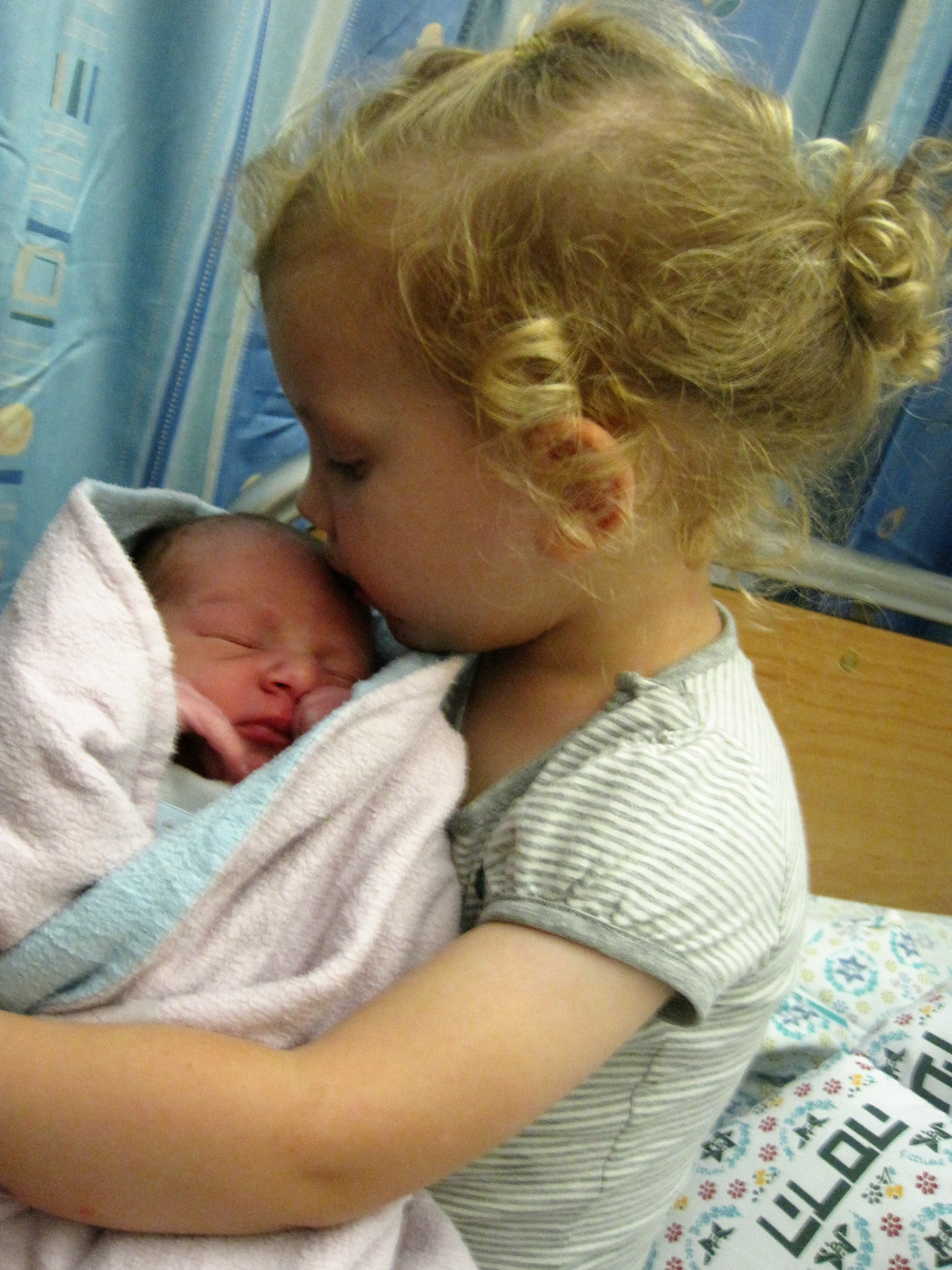 A 3-year-old embraces her brother less than a day after he was born